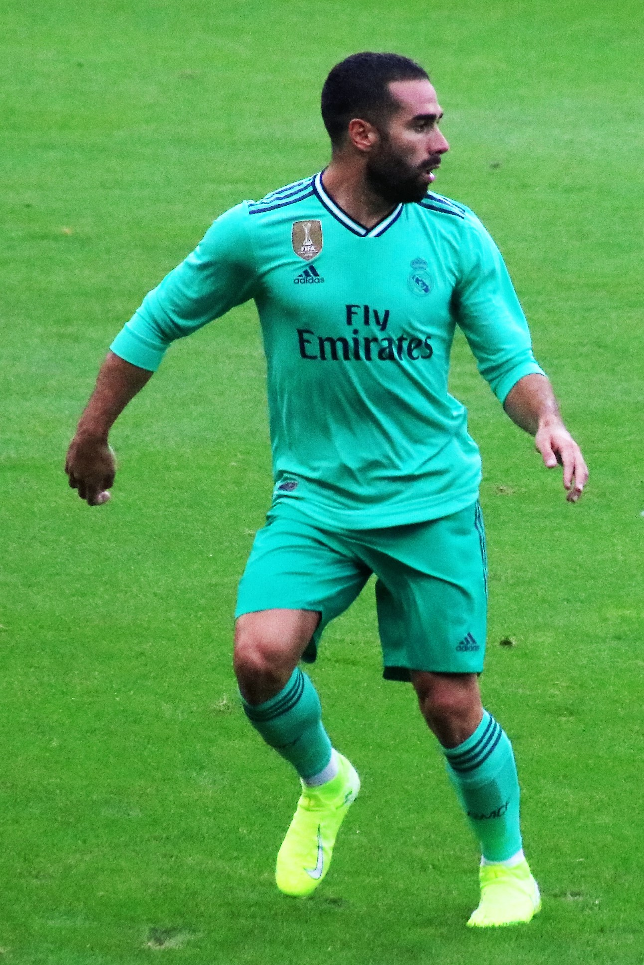 preseason match FC Salzburg